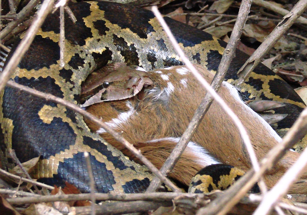 Indian Python (Python molurus molurus). This was a chance capture of Python swallowing a small (full grown - according to reliable literature this is impossible!) spotted deer in the forests of Mudumalai near Theppakadu on the edge of Moyar river, partially concealed in Lantana bushes. The entire act took about three hours. Surprisingly, contrary to popular belief, the python moved away quietly soon after entire deer was inside. .